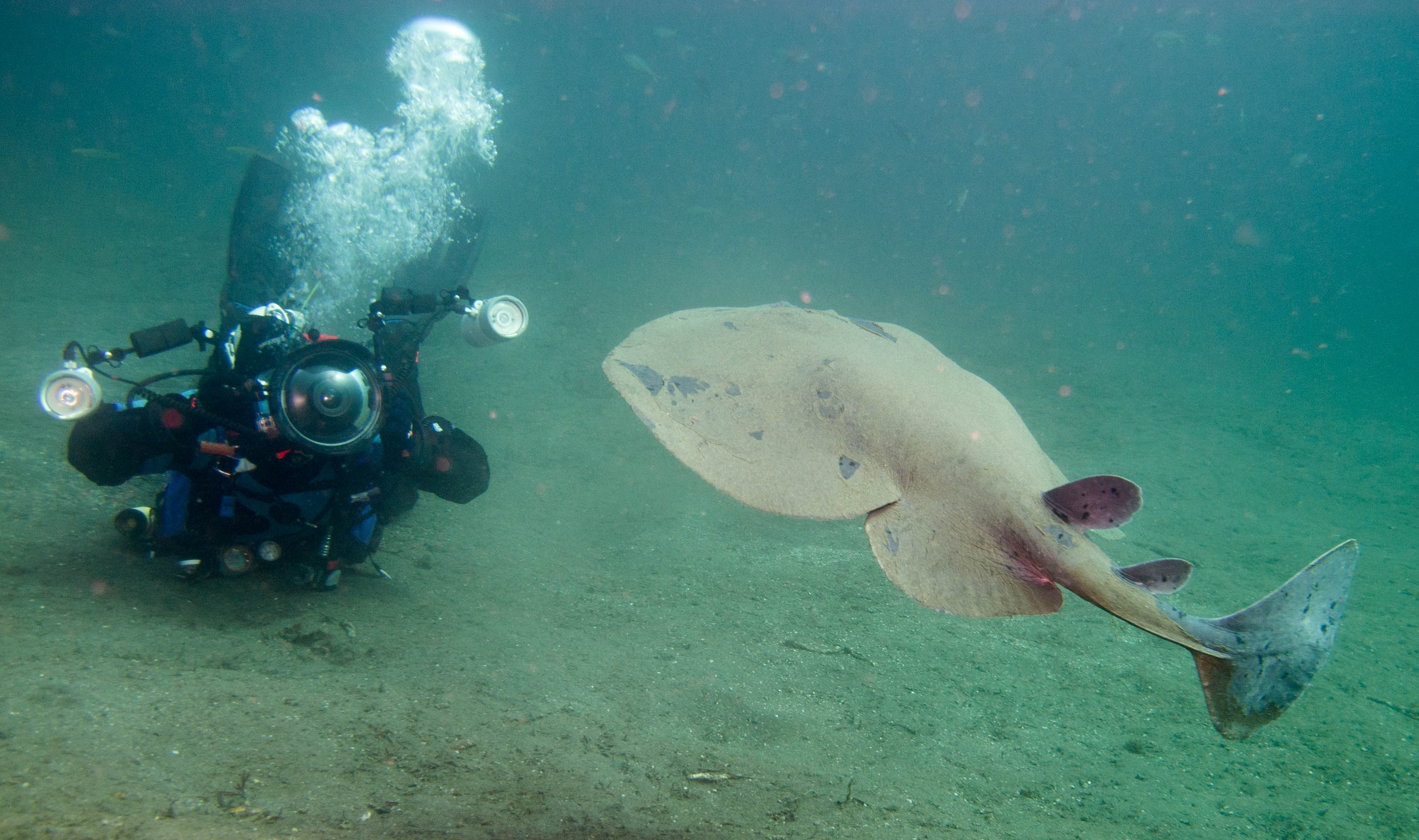 Annual diving trip with the Northern California Rainbow Divers aboard the Vision. We traveled to Santa Cruz and Anacapa Islands